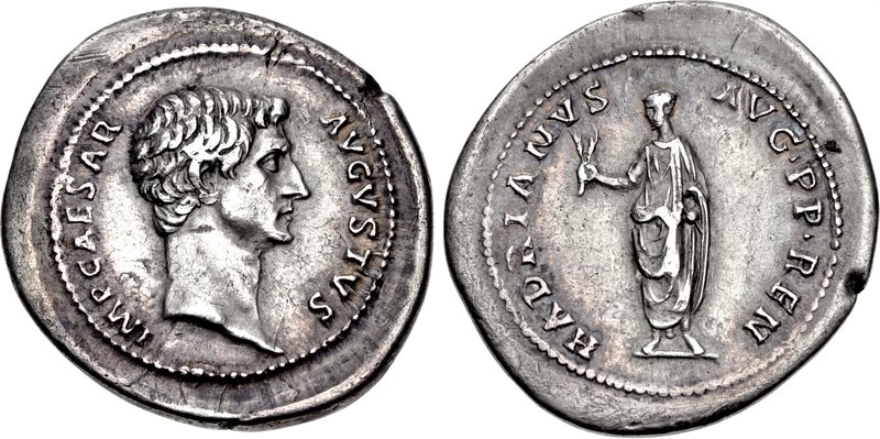 Augustus. 27 BC-AD 14. AR Cistophorus (29mm, 10.90 g, 6h). Unidentified Mint C in Asia Minor. Restitution issue struck under Hadrianus, after AD 128. IMP CAESAR AVGVSTVS, bare head right HADRIANVS AVG • P P • REN, Hadrianus standing slightly left, holding grain ears in right hand. RIC II 532; Metcalf, Cistophori type 92, 340 (O13/R14); BMCRE 1094; RSC 1. Near EF, toned. Among the finest known. From the Collection of a Northern California Gentleman. N.B. REN(atus) may refer either to Eleusinian mysteries either to a "new Augustus" – Nἐoς Σεβαστὀς